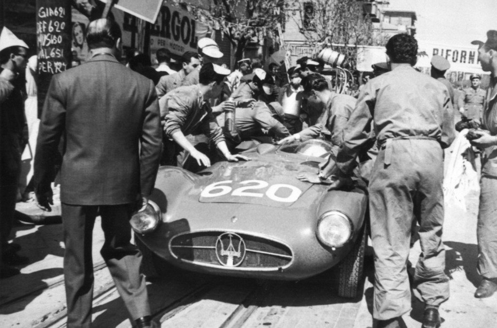 Entry #620 at the Mille Miglia on 31 April – 1 May 1955 was Maria Teresa de Filippis in the 1955 Maserati A6GCS Fantuzzi s/n 2084, possible the first race for this brand new car. She did not finish for some raisin.[1]